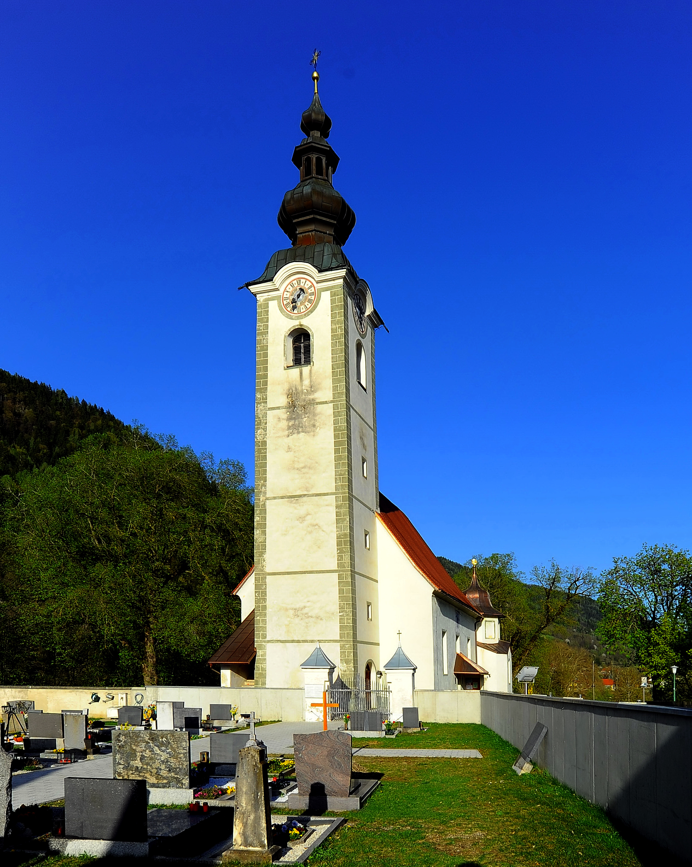 Subisidiary church San Franzisci Xavier with cemetery at Gattersdorf, municipality Voelkermarkt, district Voelkermarkt, Carinthia, Austria